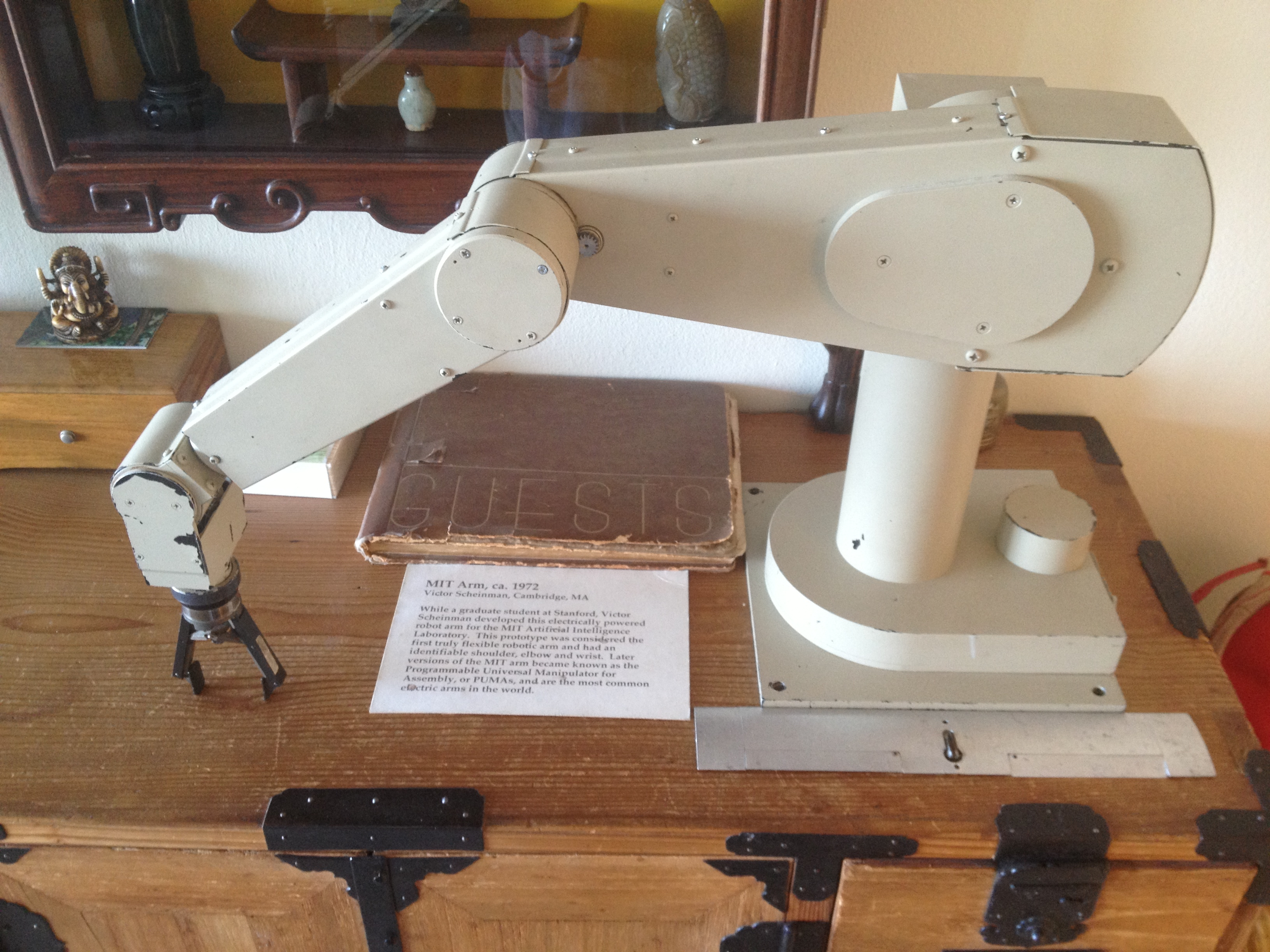 Victor Scheinman's MIT Arm, ca. 1972 “While a graduate student at Stanford, Victor Scheinman developed this electrically powered arm for the MIT Artificial Intelligence Laboratory. The prototype was considered the first truly flexible robotic arm and had an identifiable shoulder, elbow and wrist. Later versions of the MIT arm became known as the Programmable Universal Manipulator for Assembly, or PUMAs, and are the most common electric arms in the world.”